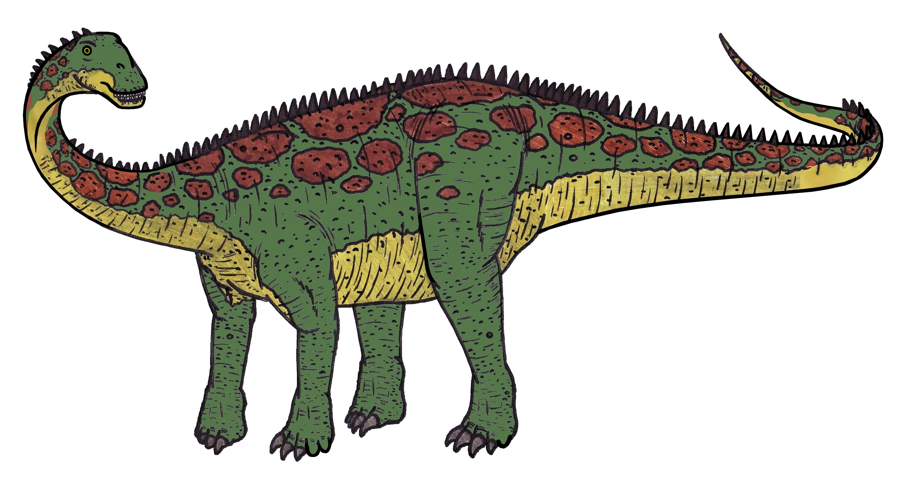 Nigersaurus was a sauropod dinosaur, related to Diplodocus. It lived in Africa about 100 million years ago.